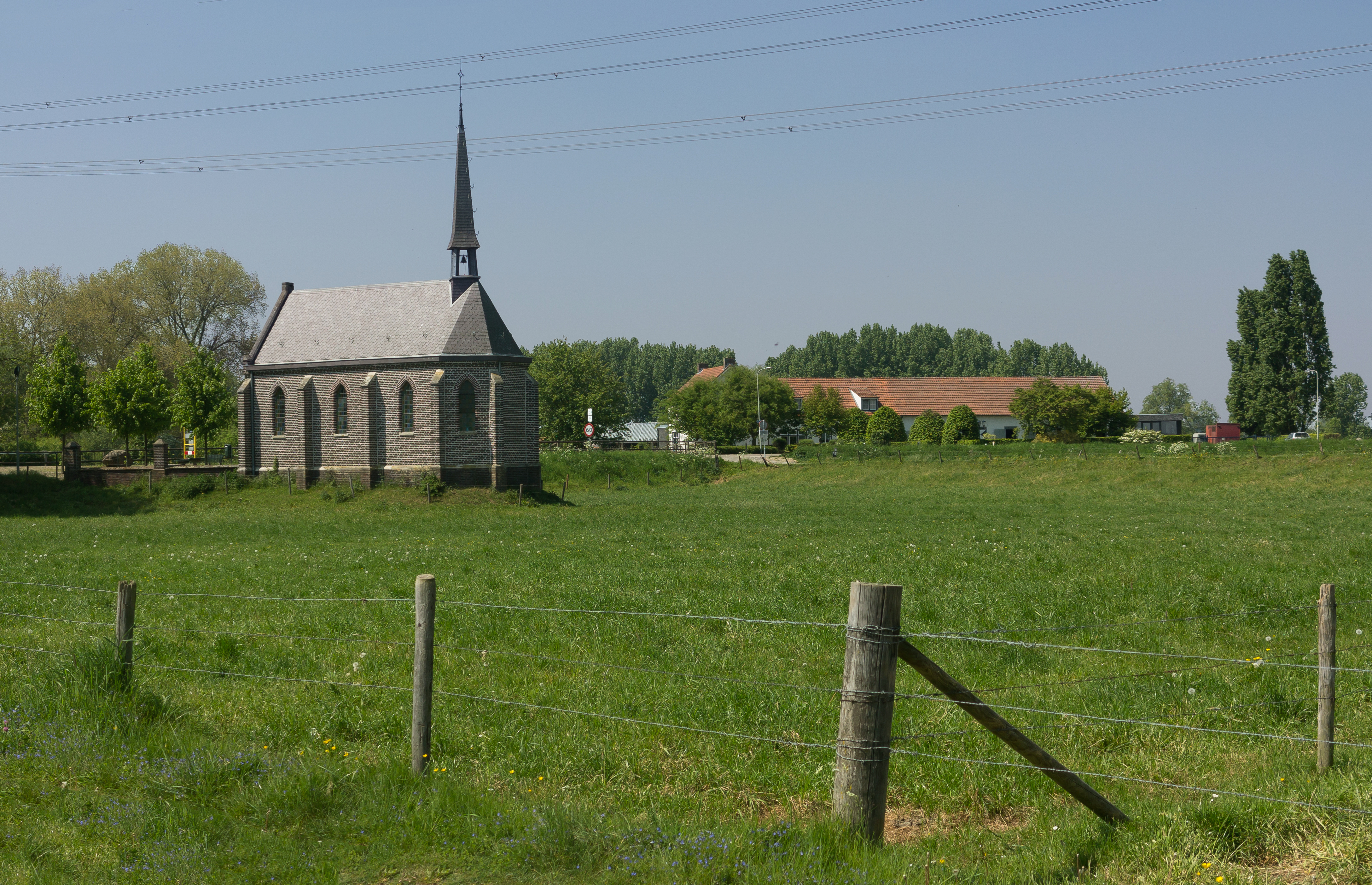 Ohé en Laak, chapel: de Sint Anna kapel